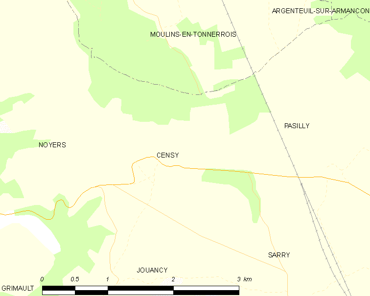 Map of French municipality Censy